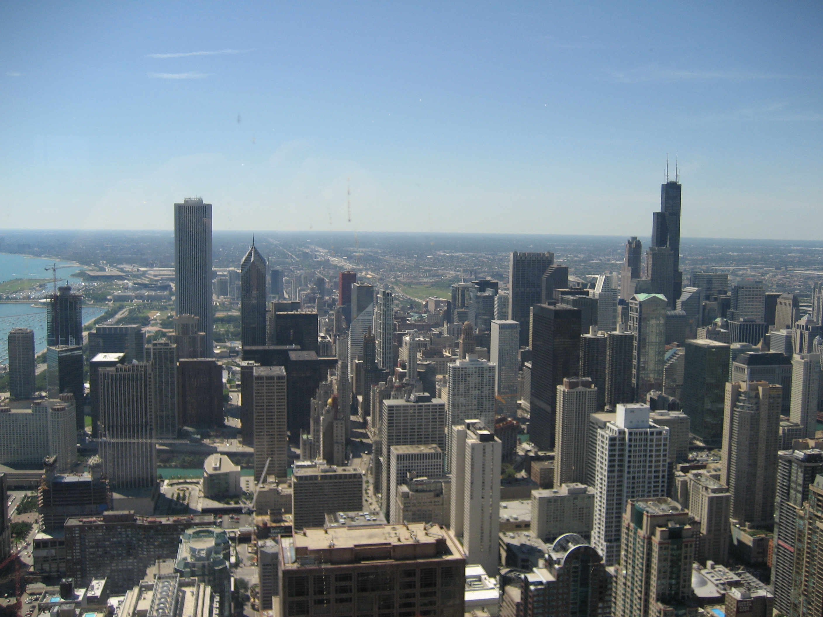 Downtown Chicago